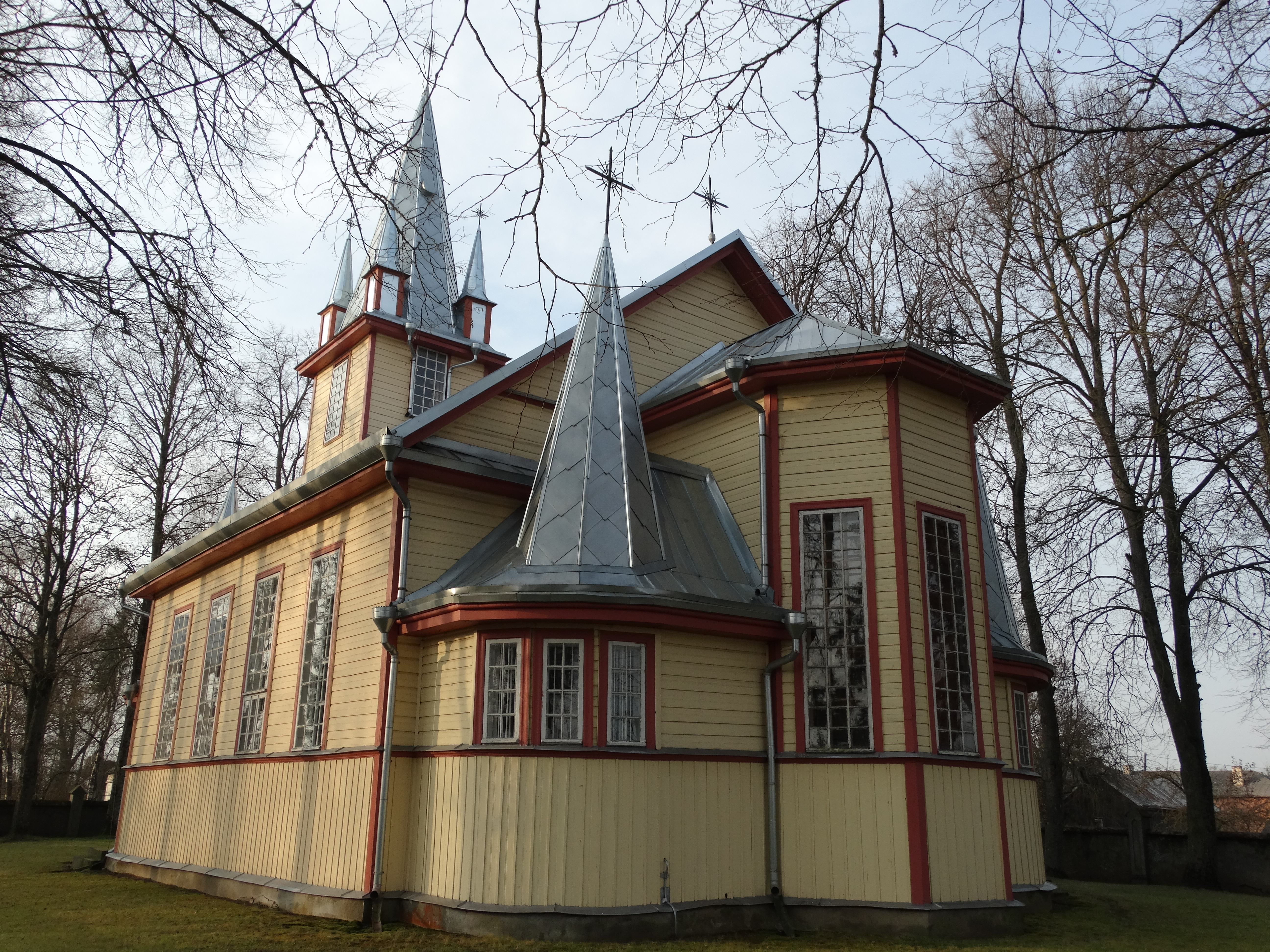 Roman Catholic Church in Kiburiai, Pasvalys district, Lithuania